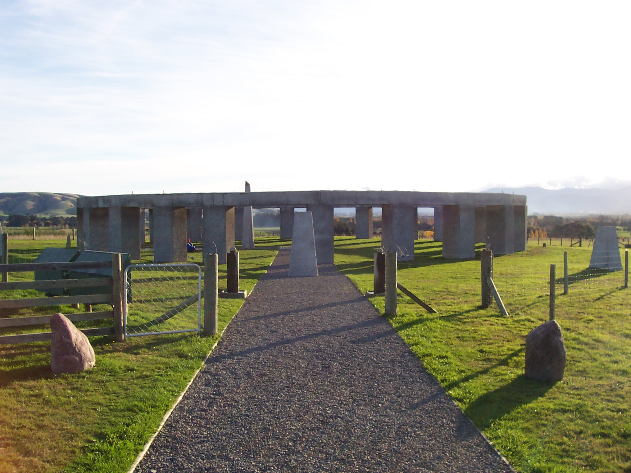 Taken by Adam Burtt, 6th May 2007. Adzze 09:00, 6 May 2007 (UTC)